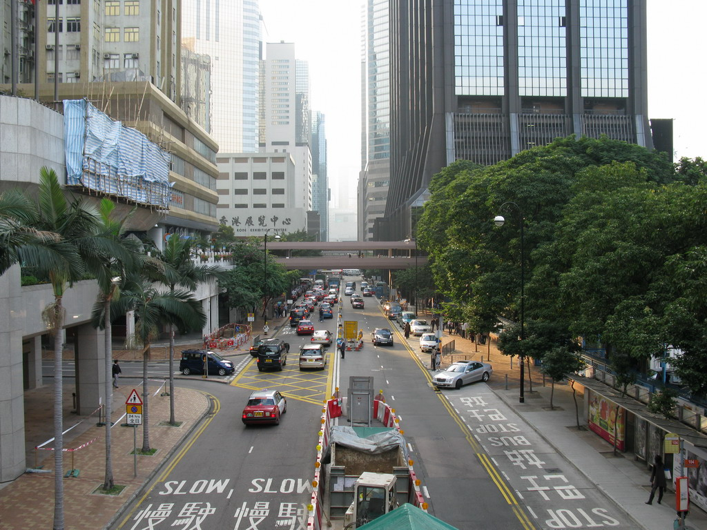 Harbour Road, Wan Chai